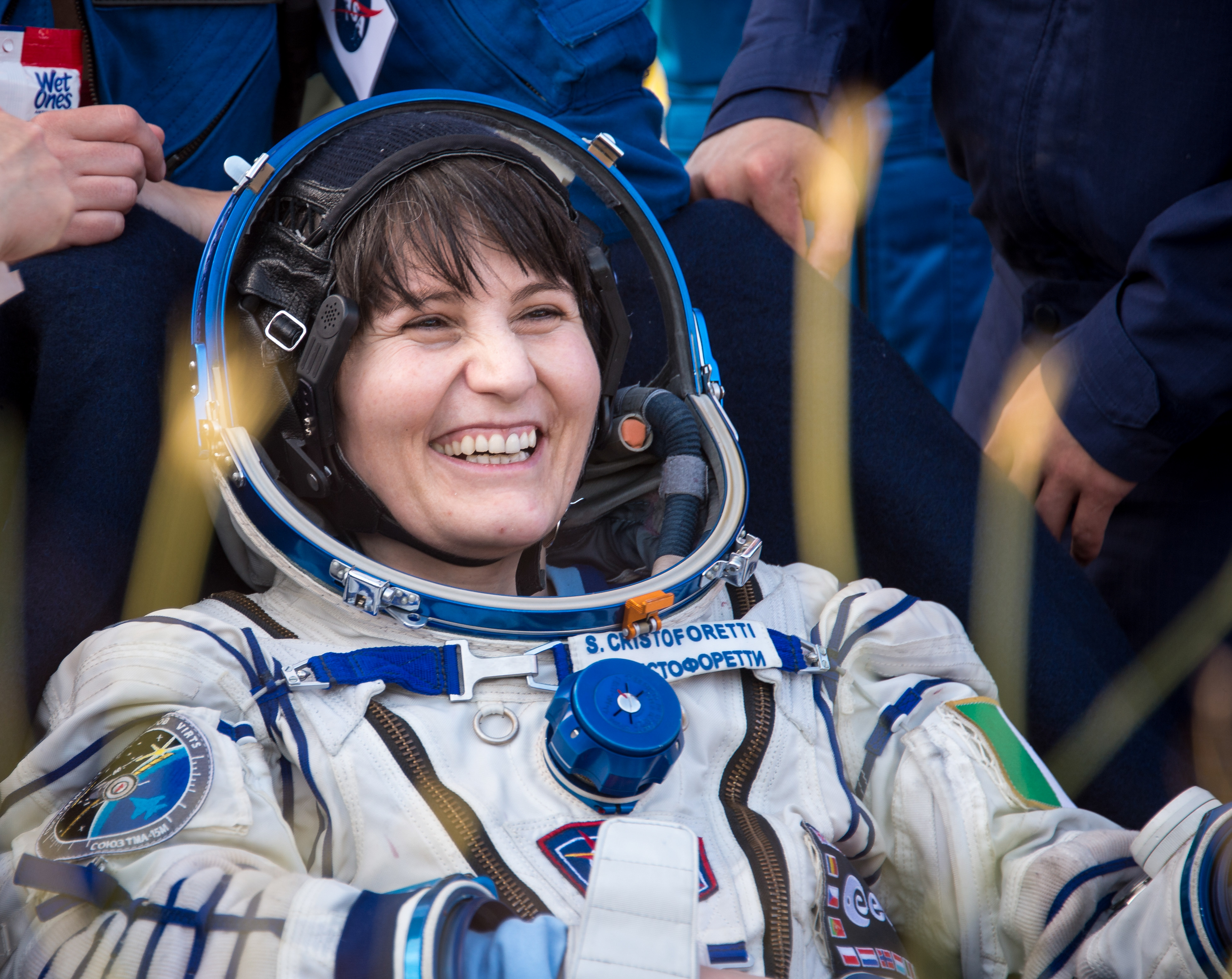 Expedition 43 Italian astronaut Samantha Cristoforetti from European Space Agency (ESA) rests in a chair outside the Soyuz TMA-15M spacecraft just minutes after she and NASA astronaut Terry Virts of NASA, and cosmonaut Anton Shkaplerov of the Russian Federal Space Agency (Roscosmos) landed in a remote area near the town of Zhezkazgan, Kazakhstan on Thursday, June 11, 2015. Virts, Shkaplerov, and Cristoforetti are returning after more than six months onboard the International Space Station where they served as members of the Expedition 42 and 43 crews.